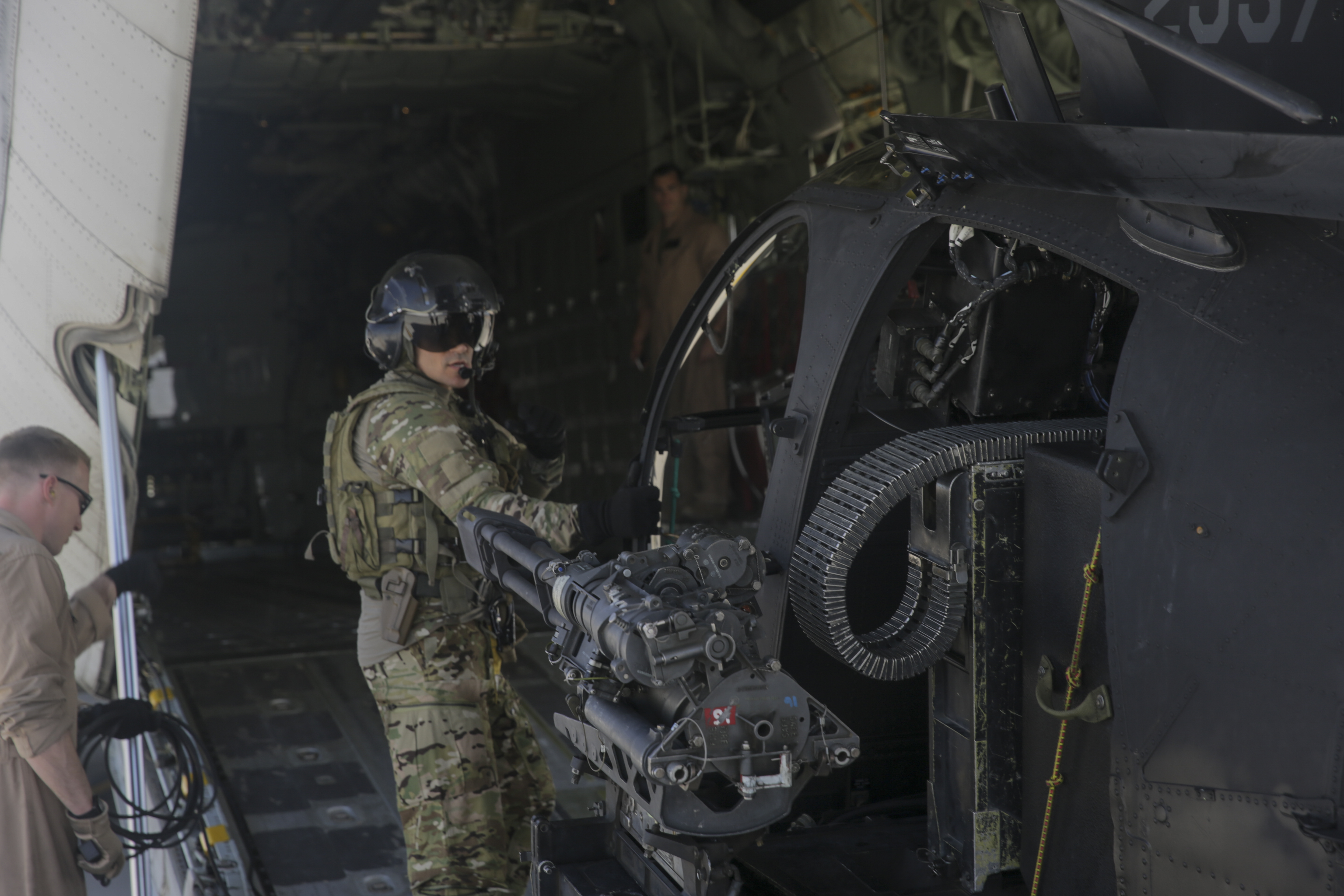 U.S. Army Soldiers prepare an A/MH-6X Mission Enhanced Little Bird for transport on a KC-130J Hercules at Marine Corps Air Station Yuma, Ariz., April 4, 2016. The loading demonstration was conducted during Weapons and Tactics Instructor (WTI) course 2-16. WTI is a seven week training event hosted by Marine Aviation Weapons and Tactics Squadron One (MAWTS-1) cadre. MAWTS-1 provides standardized advanced tactical training and certification of unit instructor qualifications to support Marine Aviation Training and Readiness and assists in developing and employing aviation weapons and tactics. (U.S. Marine Corps photo by Lance Cpl. Zachary M. Ford, MAWTS-1 COMCAM/ Released) Unit: Marine Corps Air Station Yuma Combat Camera